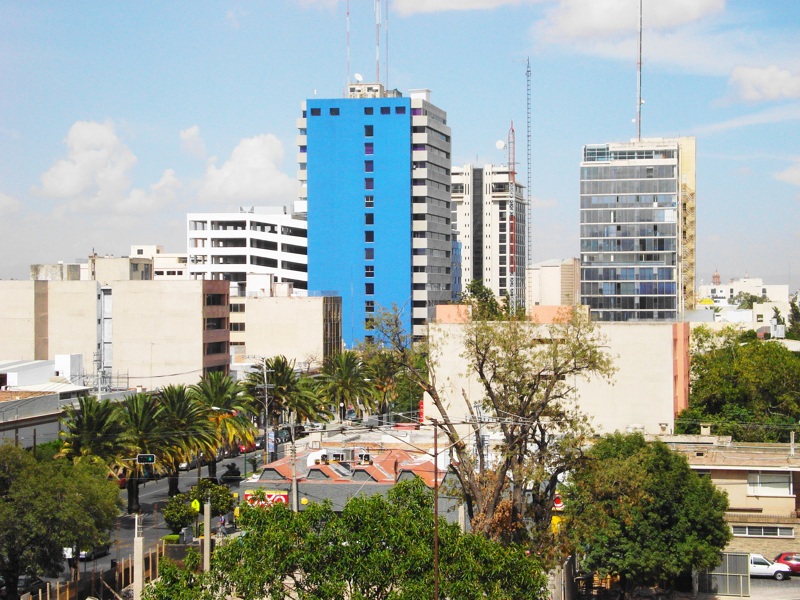 San Luis Potosi Skyline.